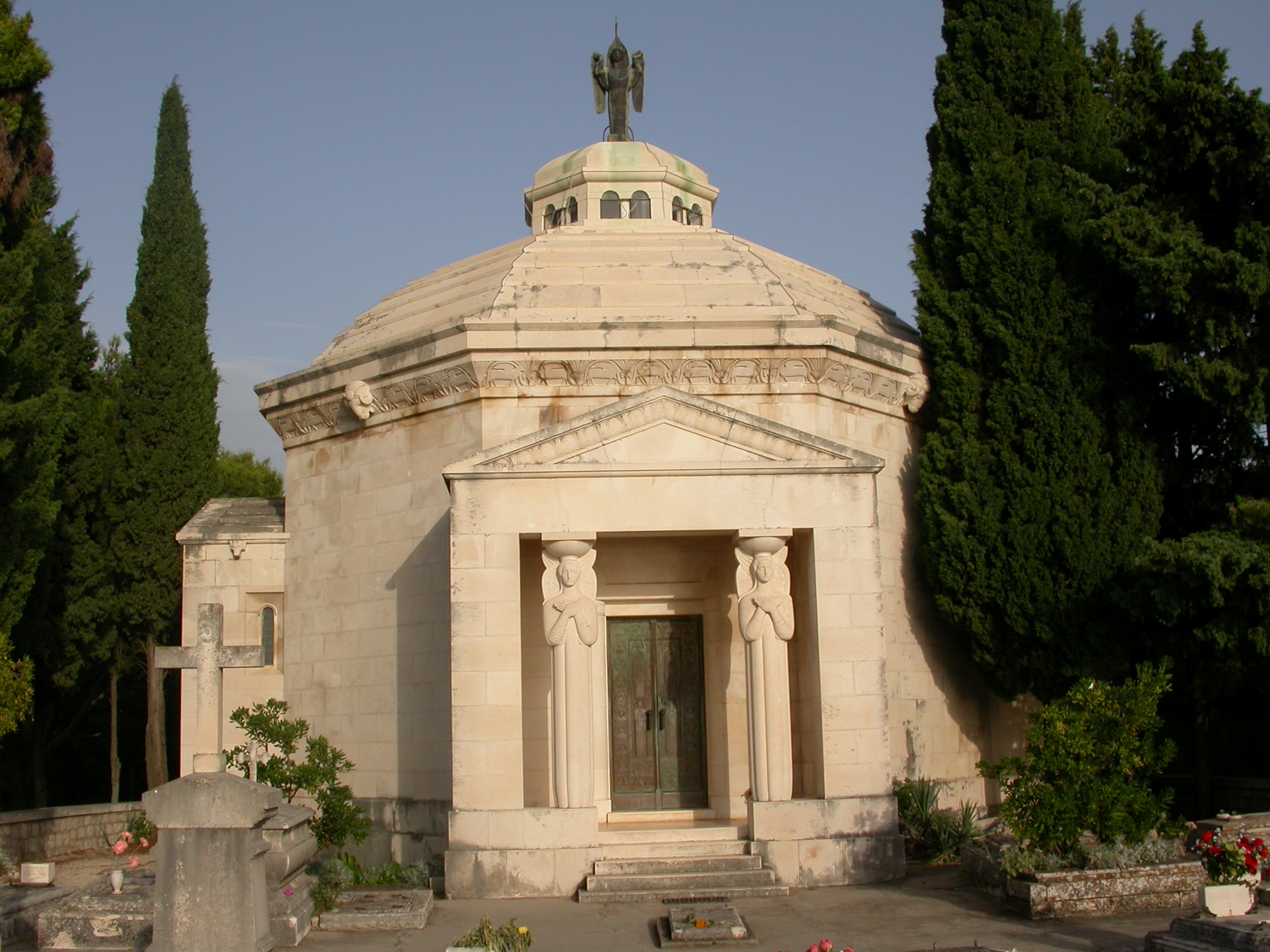 Mausoleom at Cavtat's graveyard